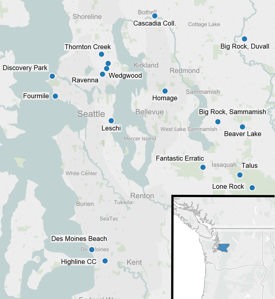 Map of glacial erratics in King County, Washington. Made with Tableau